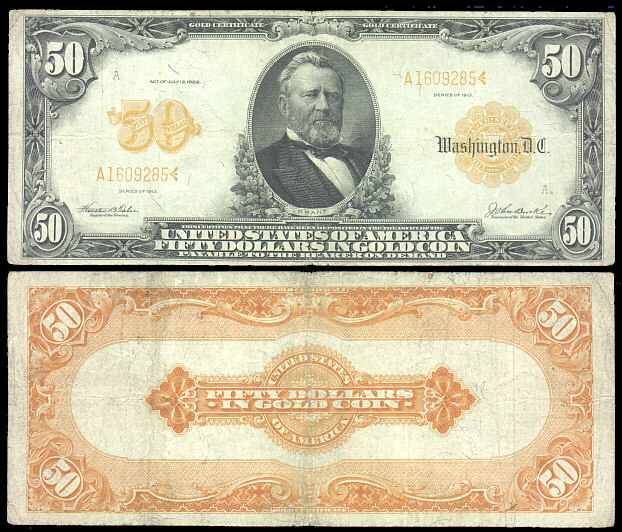 A picture of a gold certificate.